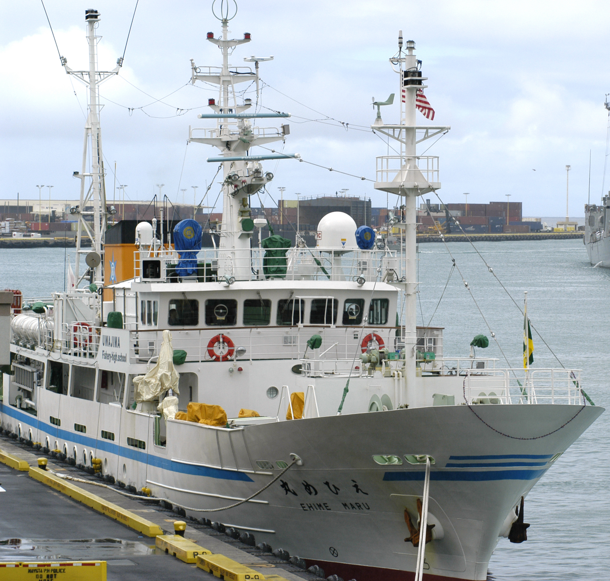 Honolulu, Hawaii (Jun. 18, 2003) -- The new Japanese fishing training vessel Ehime Maru in Honolulu, Hawaii.